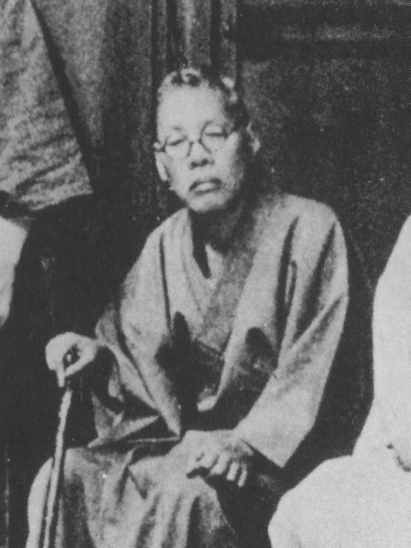 Kinjirō Kimi (Shogi players). taken in 1935.